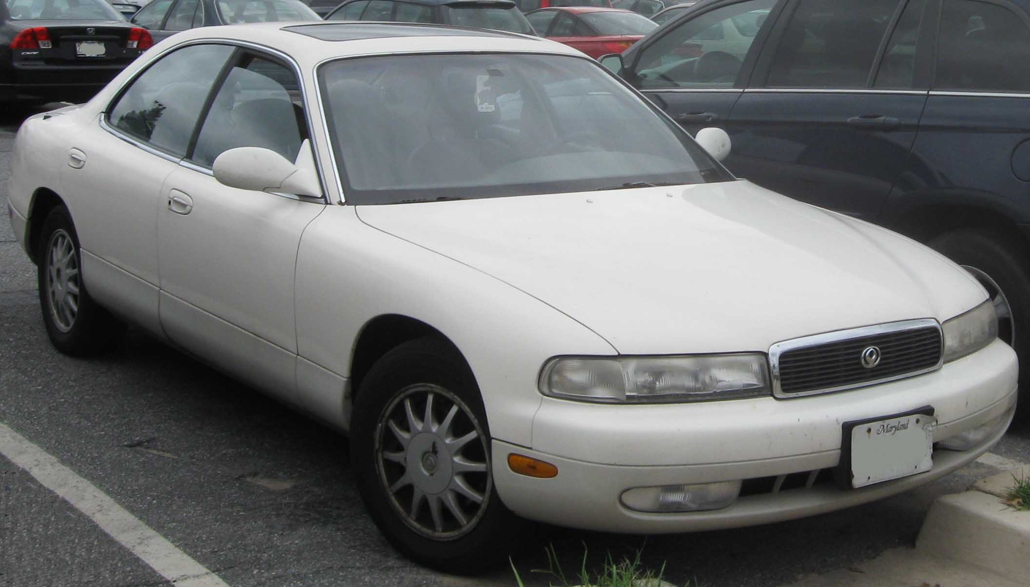 Mazda 929 photographed in College Park, Maryland, USA.